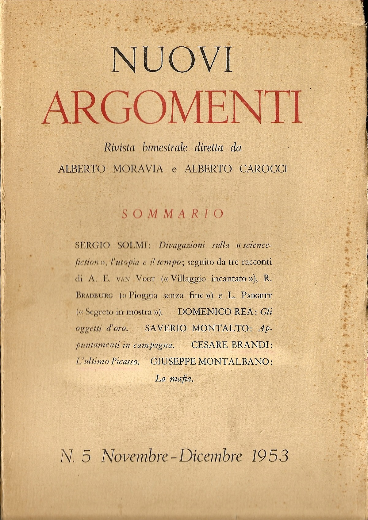 Number 5 (1953) of the magazine Nuovi Argomenti.